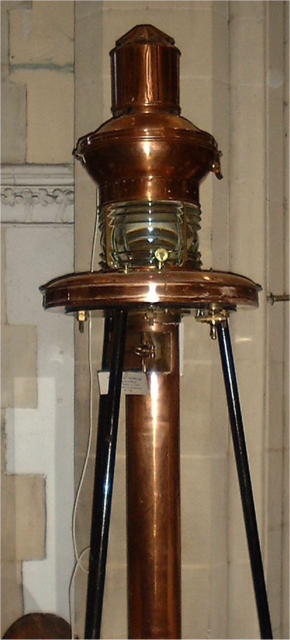 Wigham's 31-day oil lamp. Invented in 1877 by John R Wigham. Fitted in a buoy or mounted on a tower. This example is an exhibit in National Maritime Museum of Ireland. It is the property of the Maritime Institute of Ireland. I took this photo on behalf of the MII. If reproducing please reference the museum.